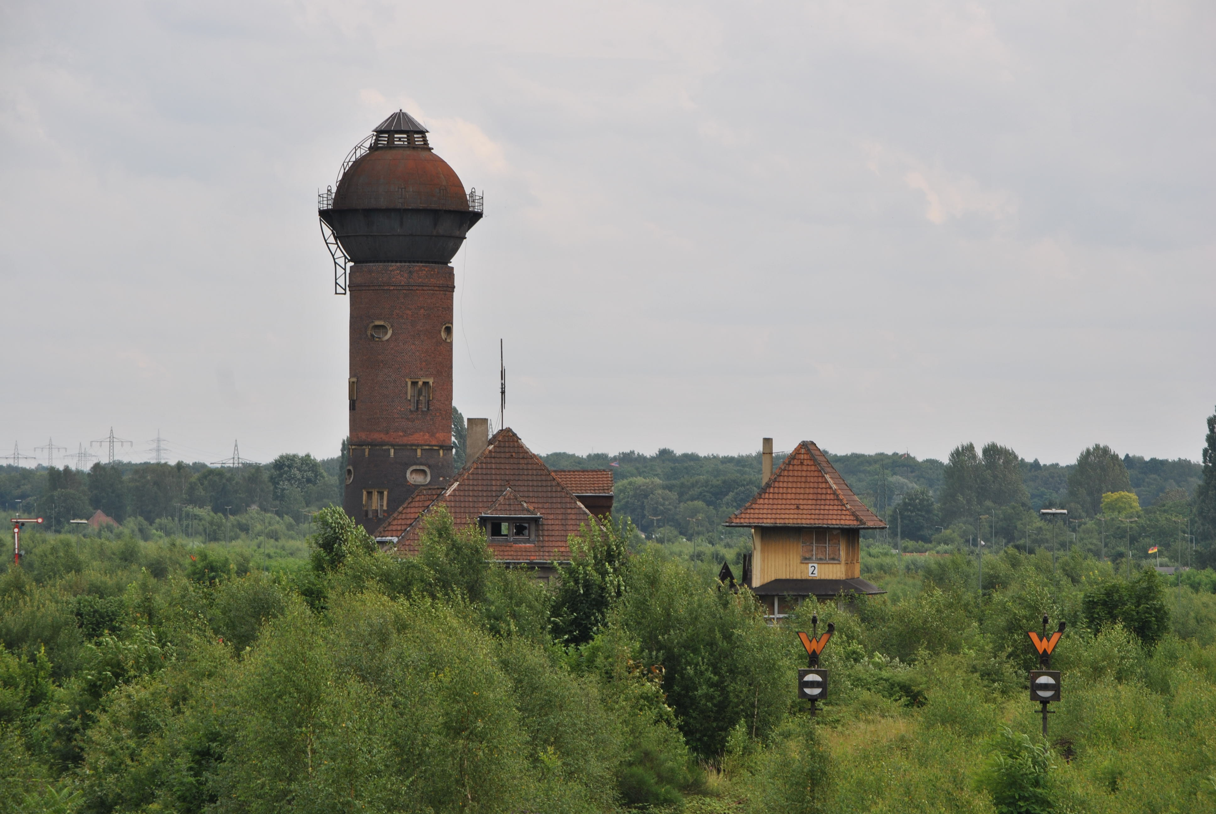 This photograph was taken with a Nikon D3000 This image shows a heritage building in Germany, located in the North Rhine-Westphalian city Duisburg. Ablaufwerk Nord des ehemaligen Rangierbahnhofs Wedau - Denkmalliste Duisburg, Nr. 169 und 170 - Koordinaten: 51.23'58.70"N, 6.48'6.46"E, Blickrichtung 16